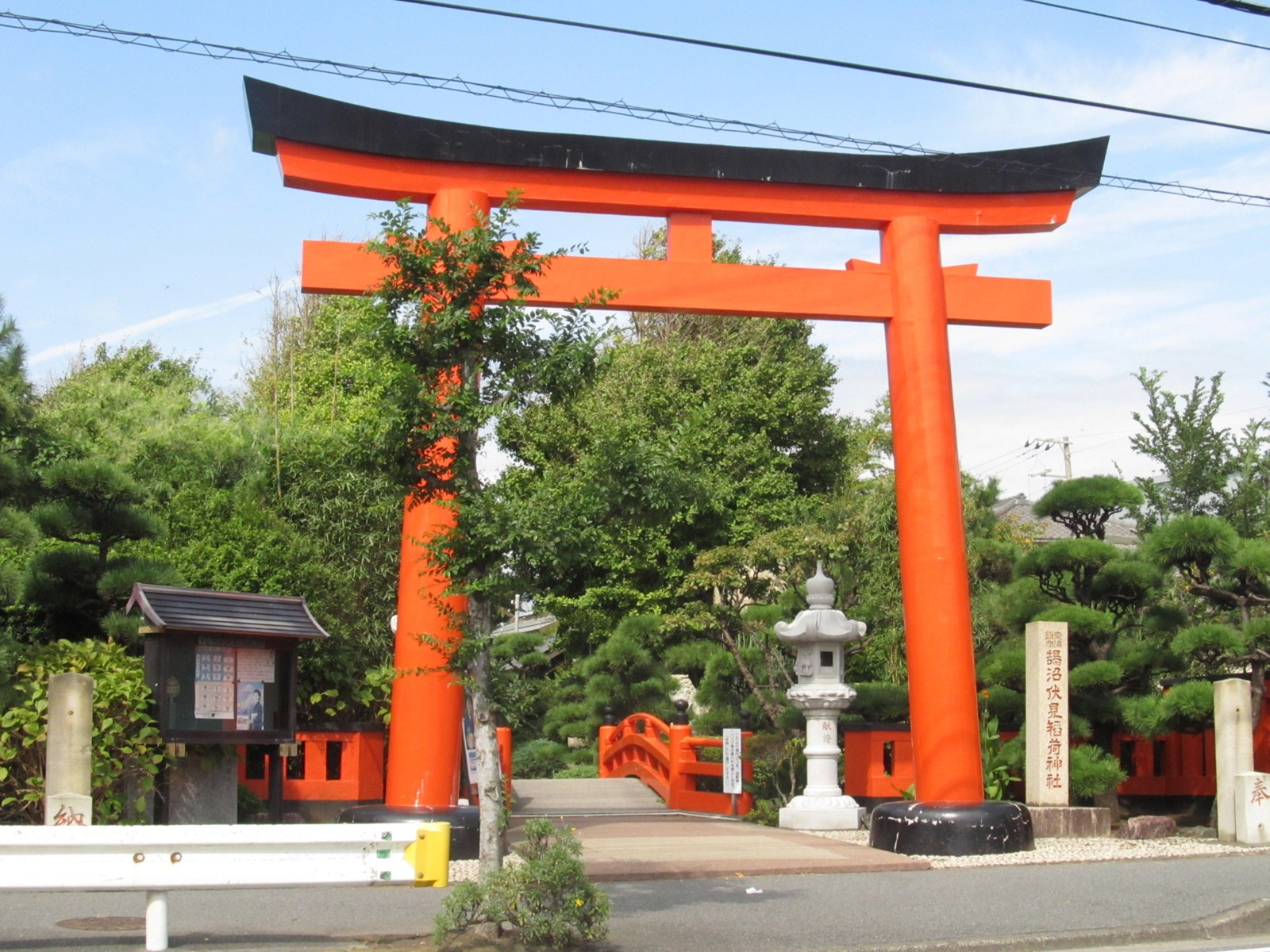 Torii at Kugenuma-fushumi-inari shrine in Fujisawa City, Kanagawa Prefecture, Japan